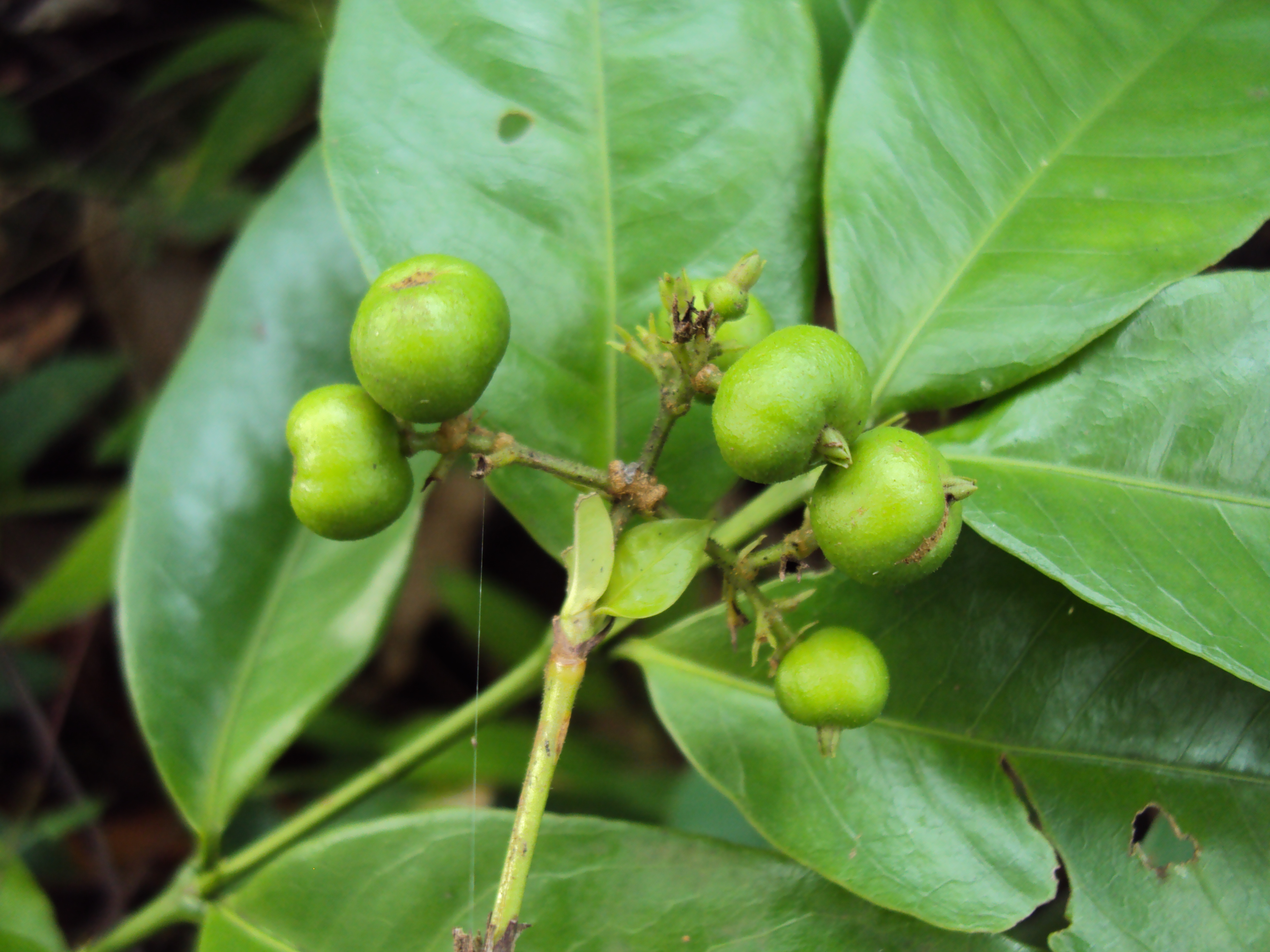 Ixora malabarica